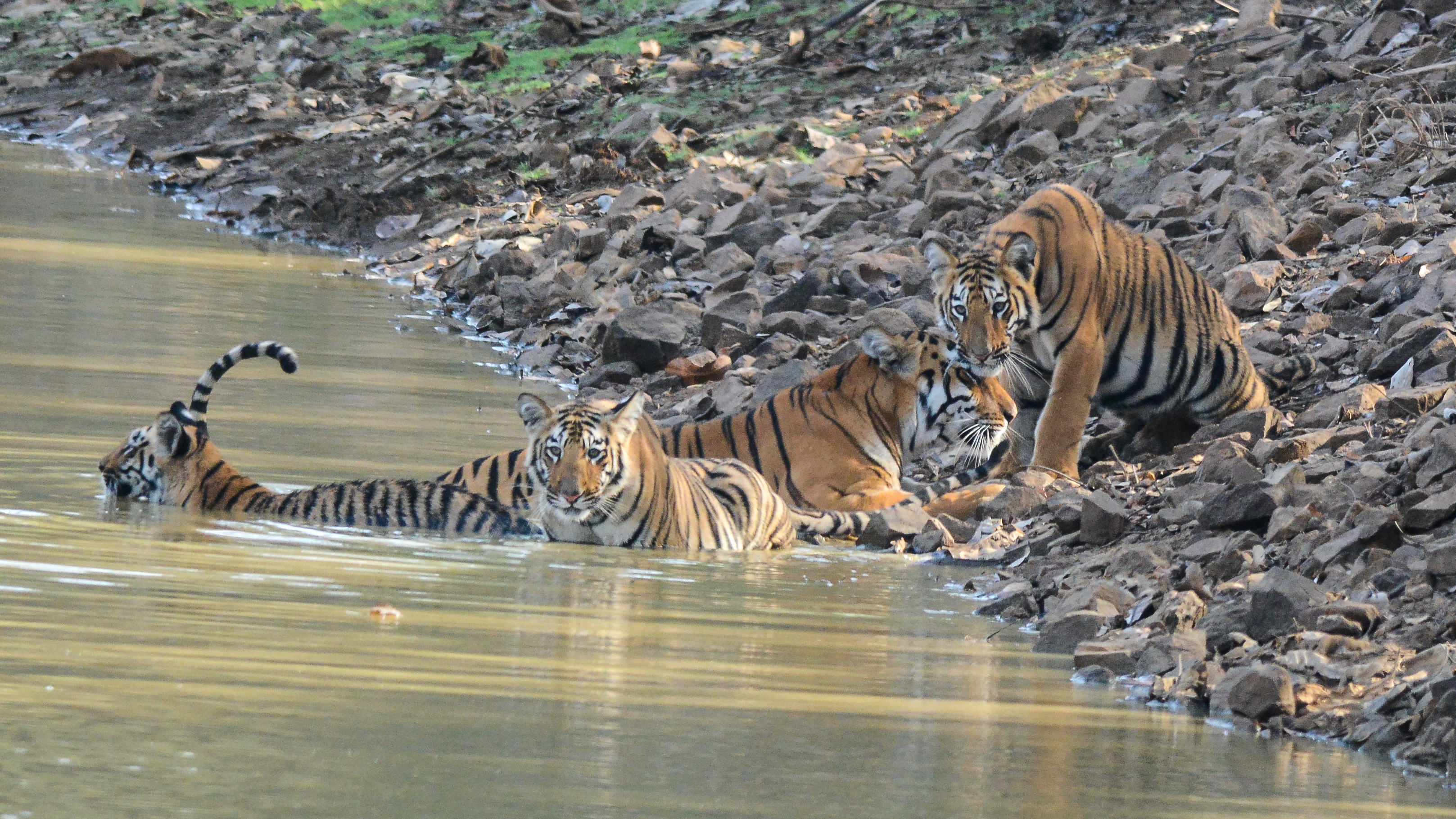 Tigress Maya from Tadoba Andhari Tiger Reserve with her 3 cubs